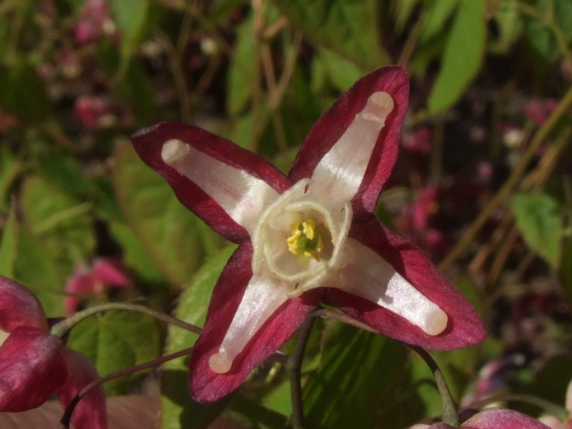 Epimedium_grandiflorum 'Rose Queen' (probably E. × rubrum)